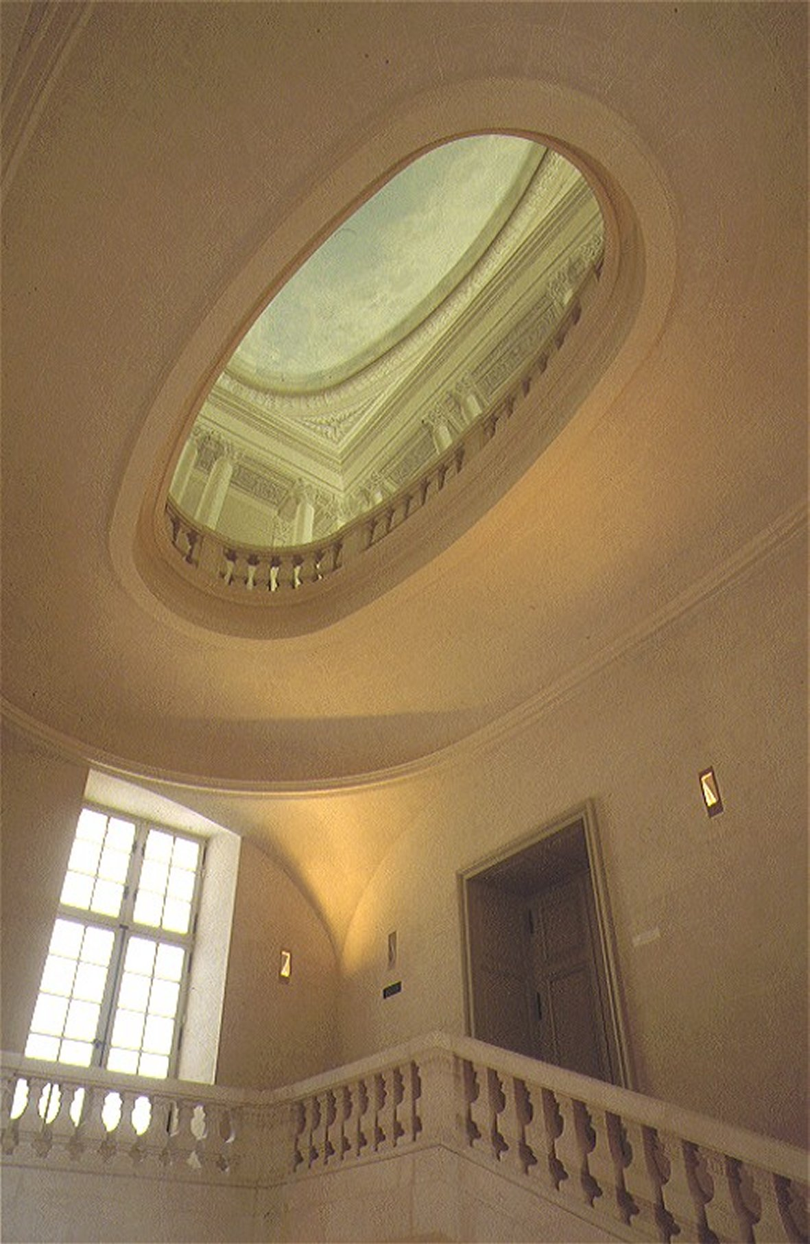 The Stairway of Honour, Hôtel de Saint-Aignan - Musée d'Art et d'Histoire du Judaïsme